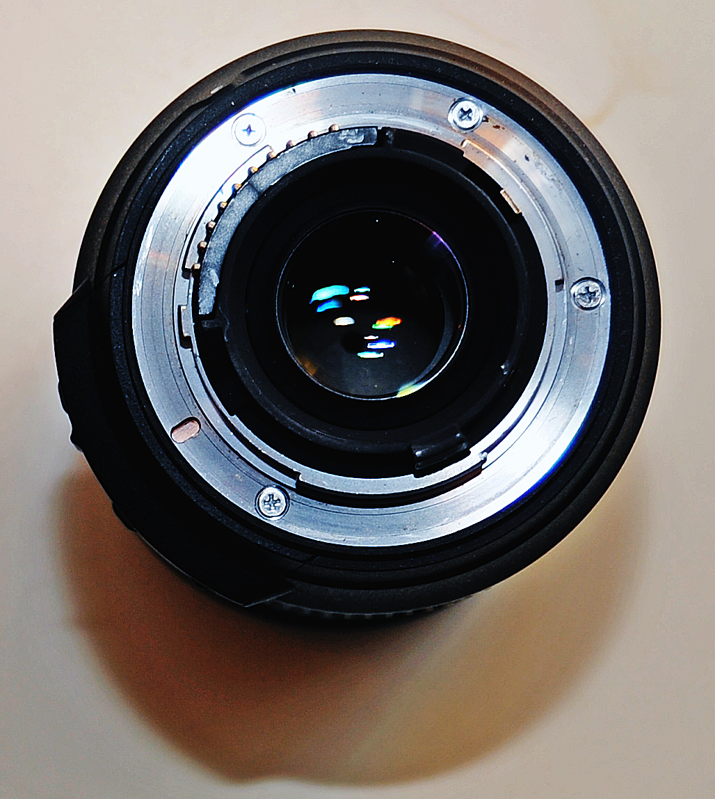 Nikon mount on lens with mekanical and electrical contacts